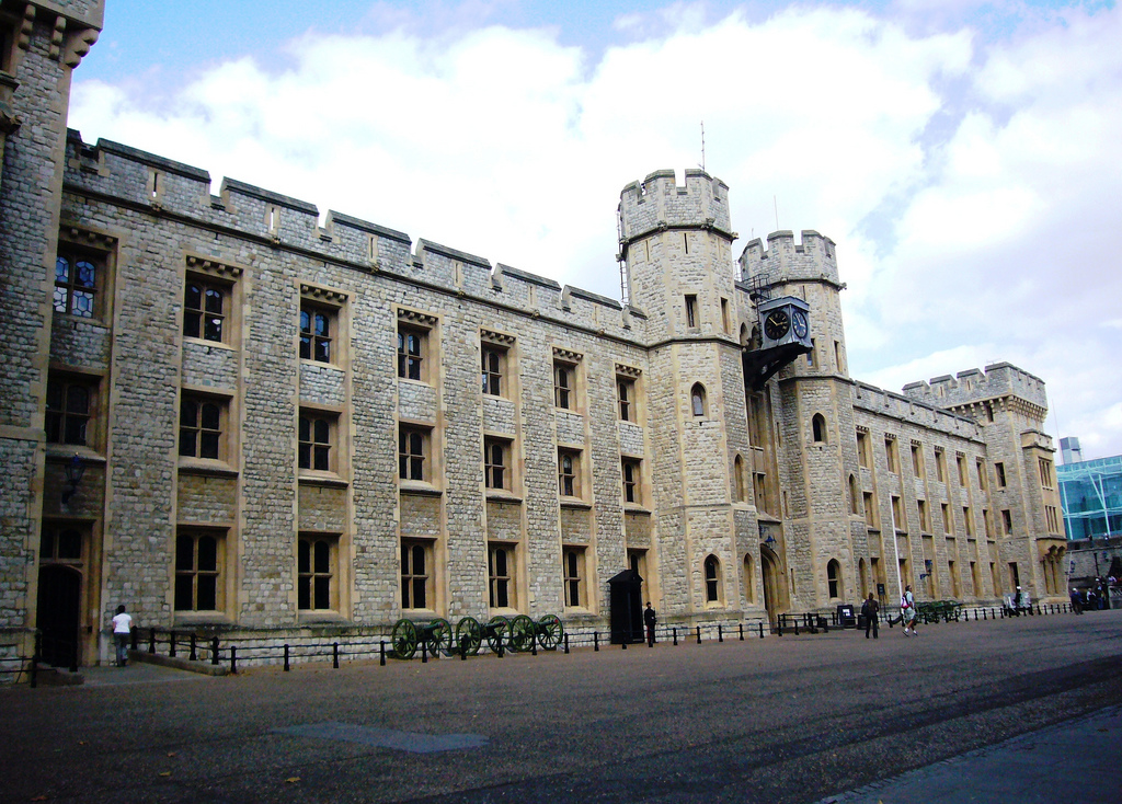 The south face of the Waterloo Barracks in the inner ward of the Tower of London